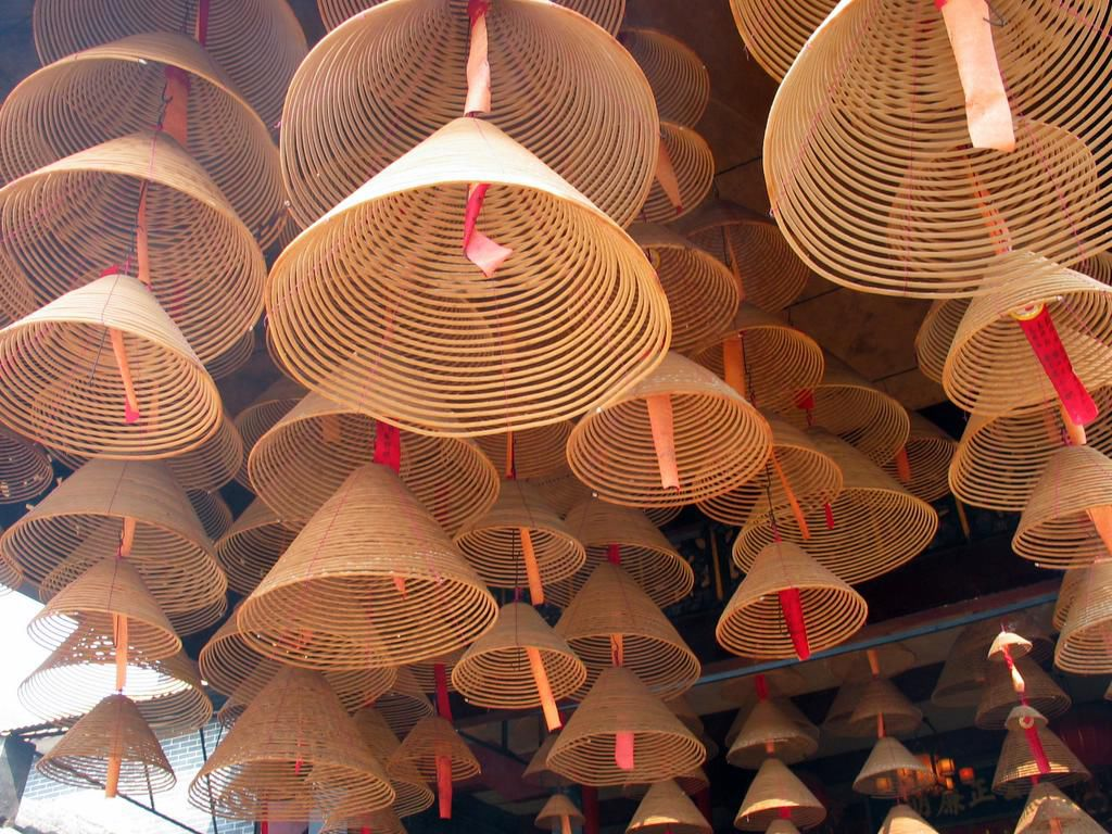 Incense coils in Zhaoqing, China